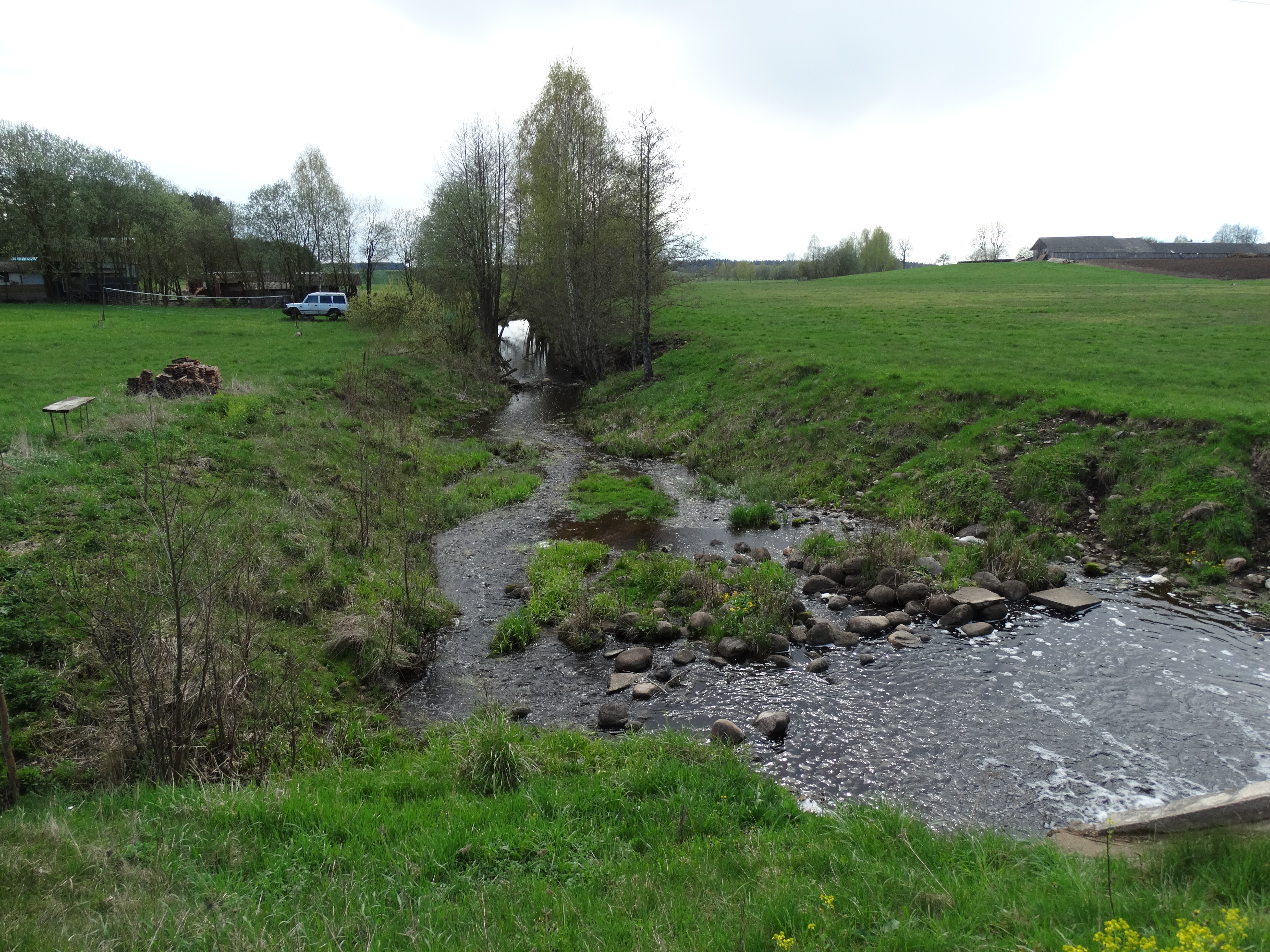 Kamena rivulet, Sangėliškės, Šalčininkai District, Lithuania